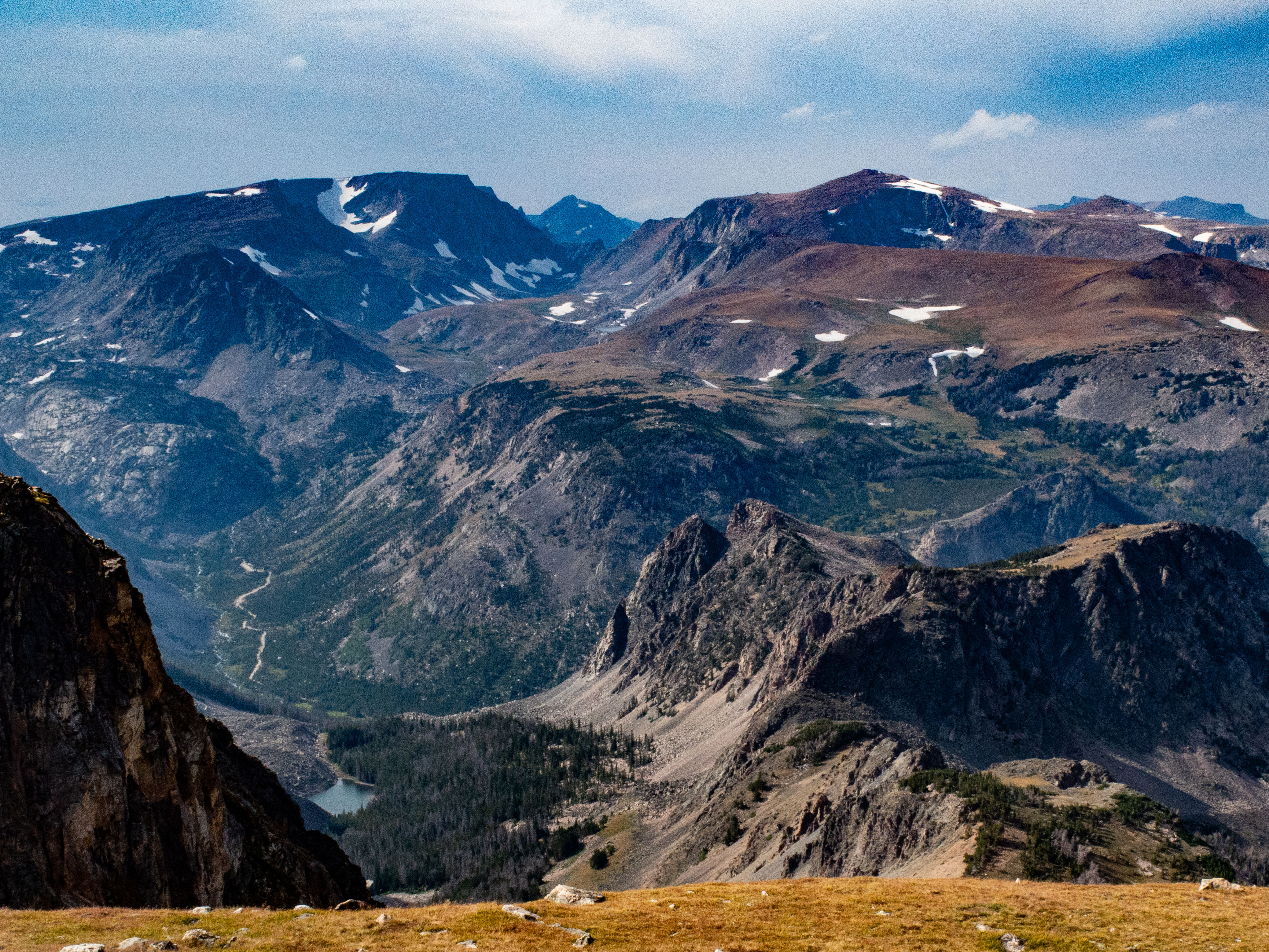 View of Beartooth Mountains from Beartooth Highway